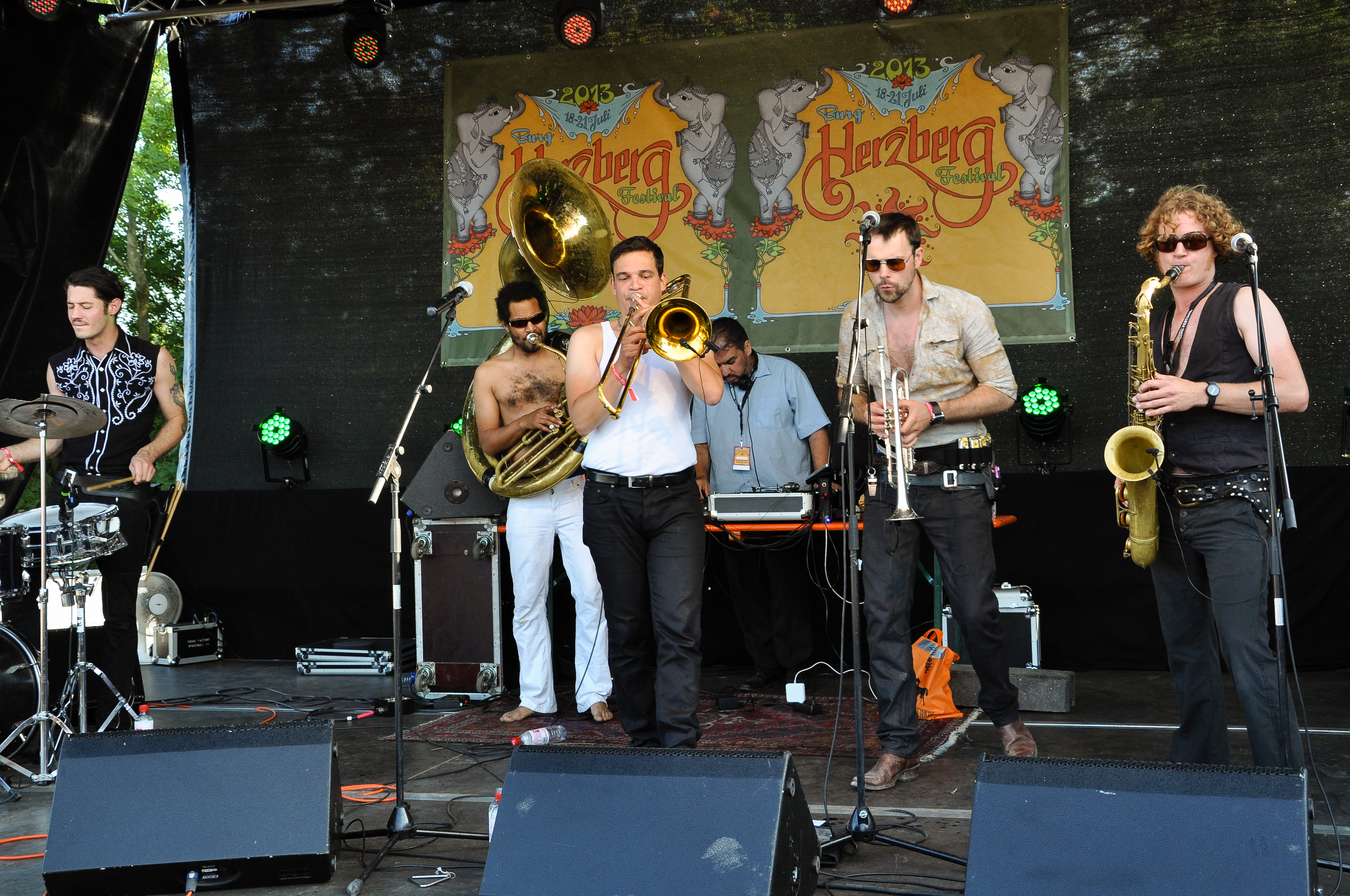 Brass Band Marshall Cooper at the Burg-Herzberg-Festival 2013